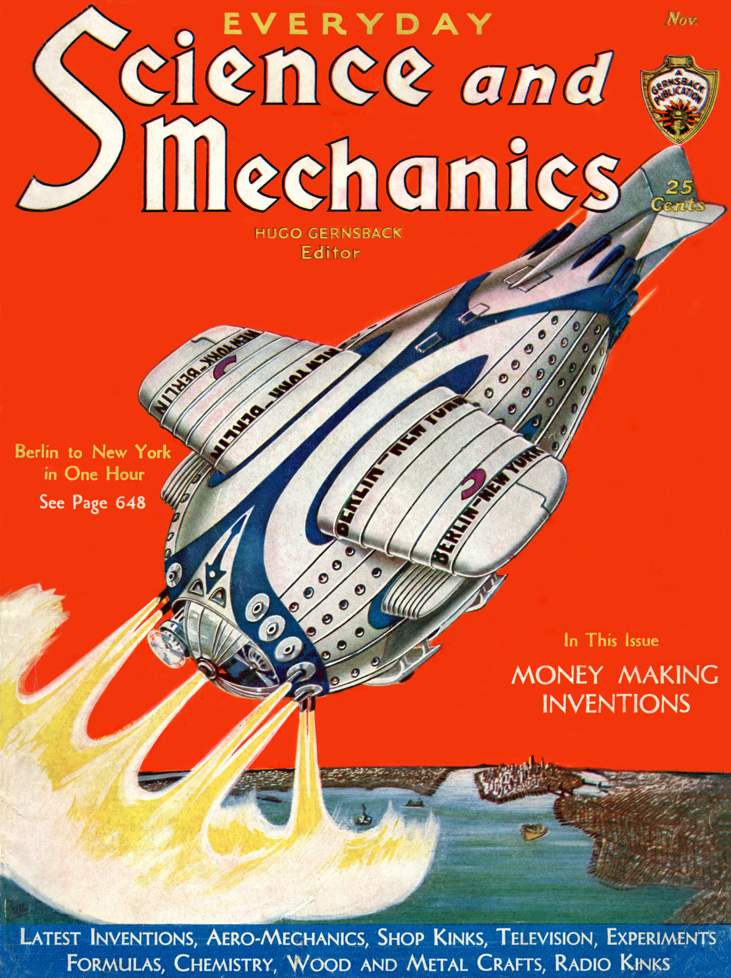 "Berlin to New York in less than One Hour!" written by Hugo Gernsback and illustrated by Frank R. Paul in the November 1931 issue of Everyday Science and Mechanics. (Volume 2, Number 12.) This proposed spaceship would reach an altitude 700 miles on its one hour trip from Berlin to New York. The article notes that "the tremendous acceleration of the flyer during the first few minutes makes things rather uncomfortable for the passengers." Artificial refrigeration would keep the passengers and ship from getting too hot on re-entry. A major problem to solve is the weight of the fuel required for the trip. Hugo Gernsback started his first magazine, Modern Electrics in 1908 and wrote his first "Science Fiction" story, "Ralph 124C 41+", in 1911. Gernsback started a dedicated science fiction magazine, Amazing Stories, in 1926. The World Science Fiction Society annual award for science fiction writing is the Hugo. Frank R. Paul began illustrating Gernsback's magazines around 1914 and became one of the leading science fiction artists. Science and Mechanics was started by Hugo Gernsback soon after he lost his Experimenter Publishing Company in 1929. Initially titled Everyday Mechanics, it became Everyday Science and Mechanics in 1931. Virgil Angerman purchased the magazine in 1937 and changed the title to Science and Mechanics. Curtis Publishing Company acquired a controlling interest in 1954 and the magazine was sold to Davis Publications in 1959. The magazine was published until 1984. This cover had soiling on the edges with a few minor folds, scratches and pencil marks. It was scanned with an Epson Perfection V500 scanner and saved as a 300 dpi tif file. The restoration was done in Adobe Photoshop Elements 5.0. The magazine size is 8.5 by 11.5 inches (215 by 290 mm).